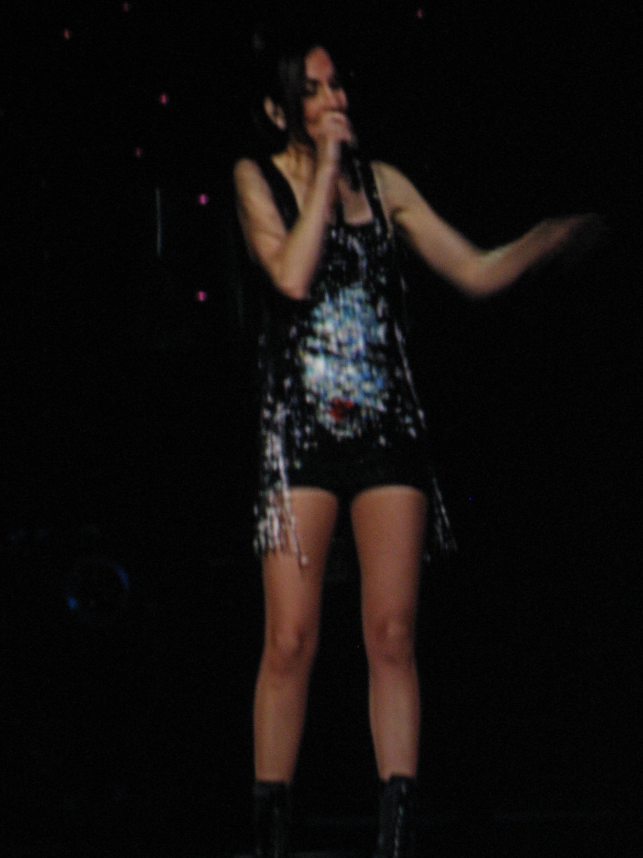 Despina Vandi performing at the Mohegan Sun Arena in Uncasville on May 24, 2009.